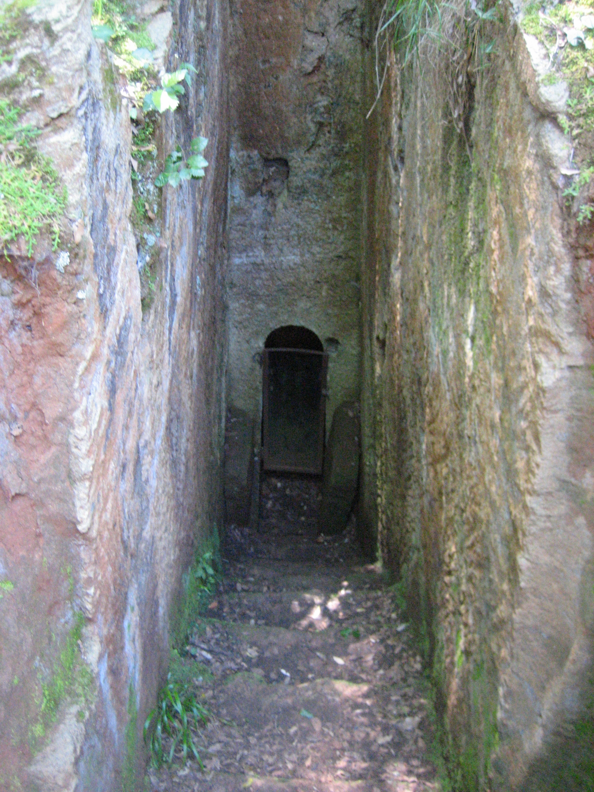 Etruscan sepulchre in the "Parco Archeologico di Baratti e Populonia" in Tuscany in Italy.